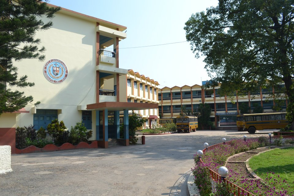 St. Joseph's School